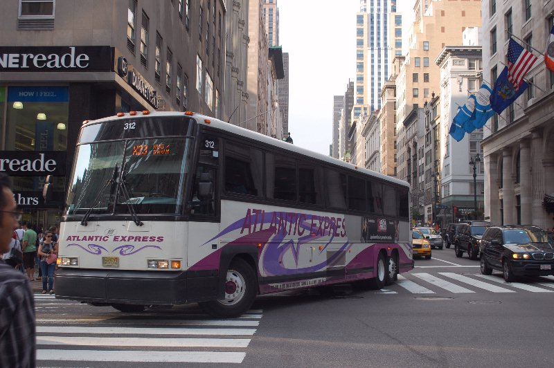 Atlantic Express MCI #312 seen operating Staten Island bound on NYSDOT Express Bus Route X23 to Huguenot/Drumgoole (Hug/Drum) at 5 Av and 34 St, Manhattan, in the afternoon of June 21, 2011.